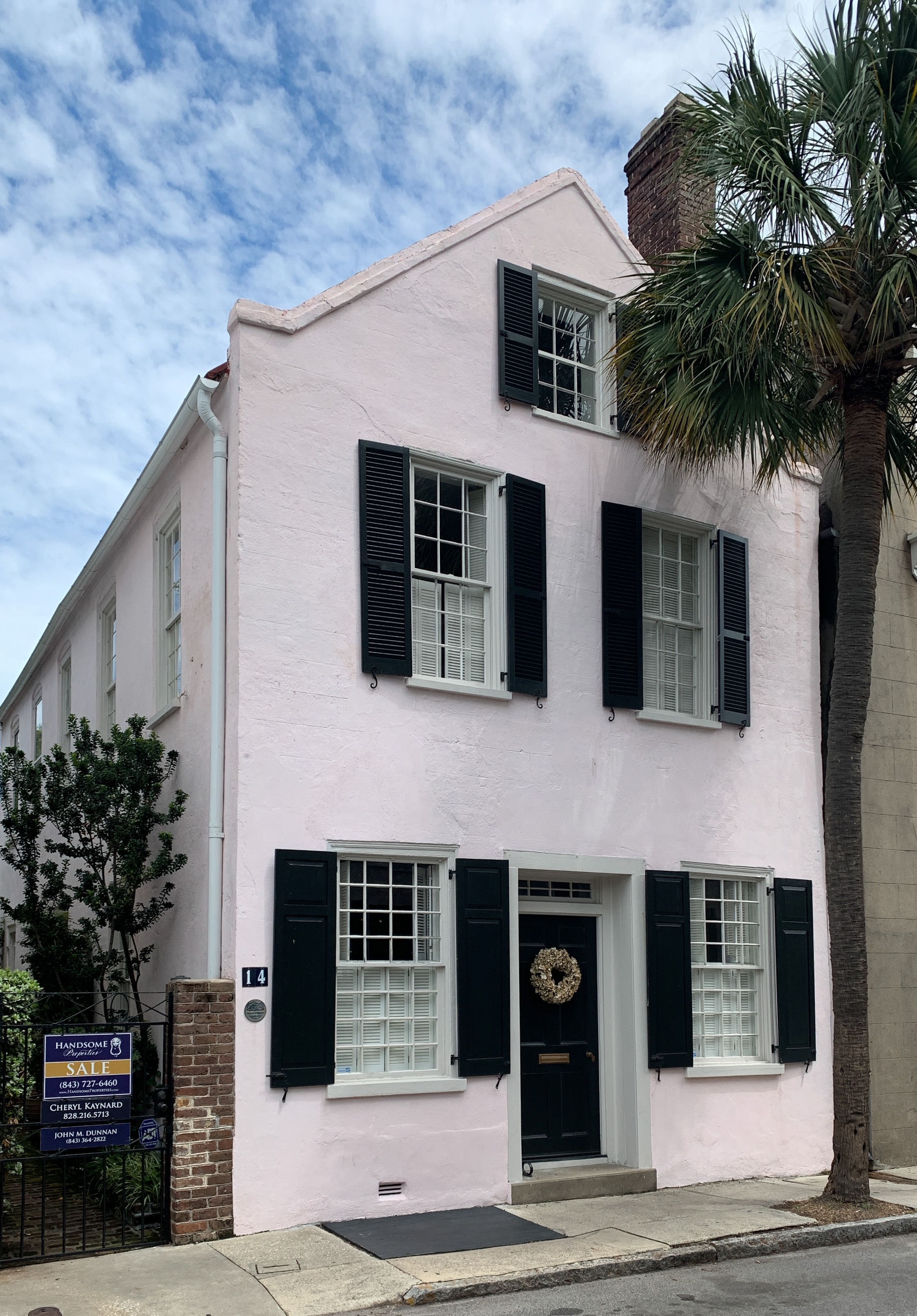 14 Queen Street, Charleston, South Carolina